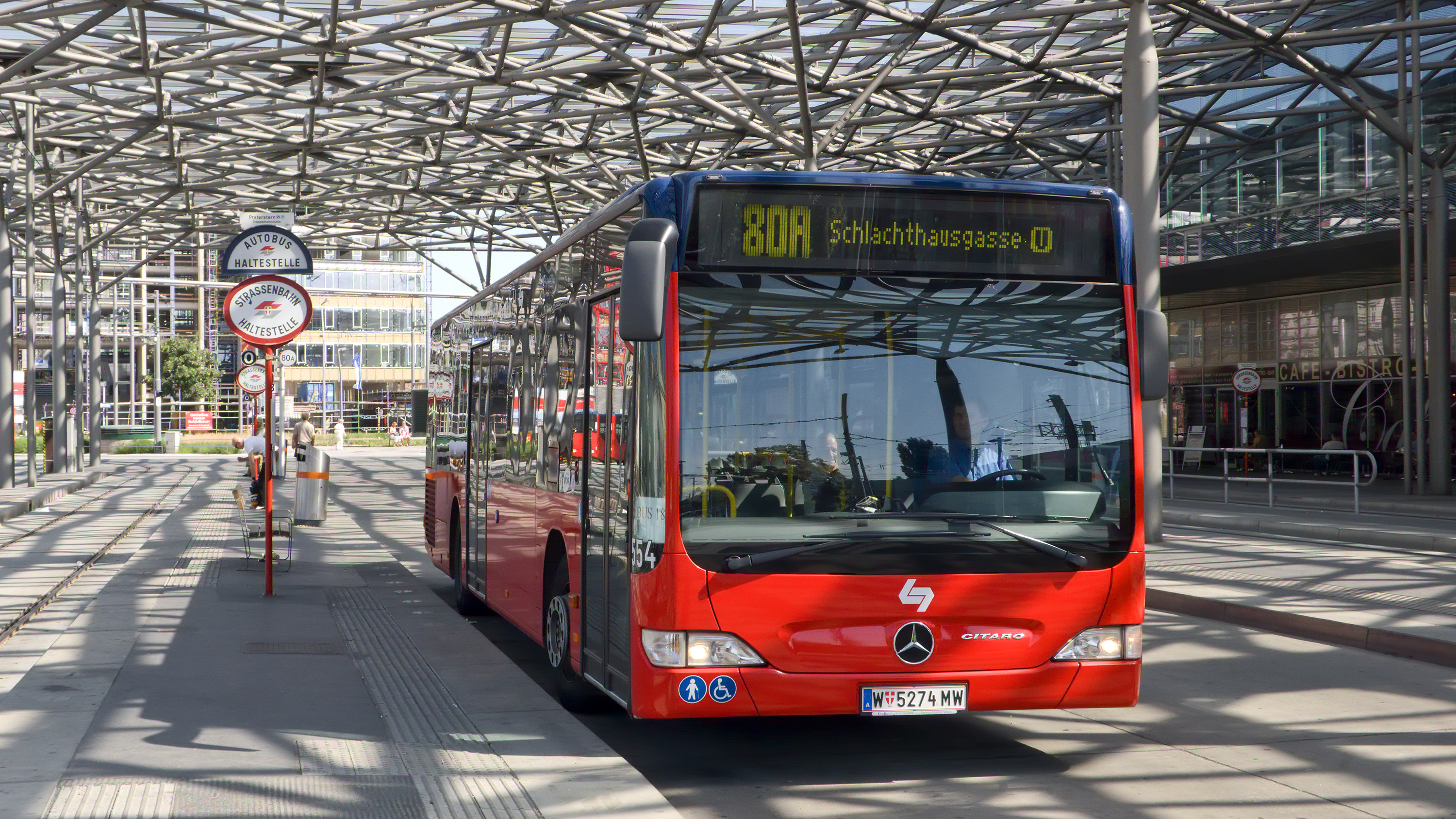 Railway station Bahnhof Wien Praterstern in Vienna Leopoldstadt